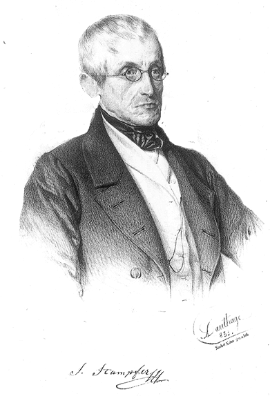 Portrait of Simon Ritter von Stampfer ( 1792 - 1864) the Austrian mathematician, surveyor and inventor in 1853.